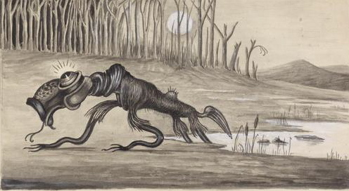 1 painting of a bunyip : watercolour, b&w ; image 15.4 x 28 cm